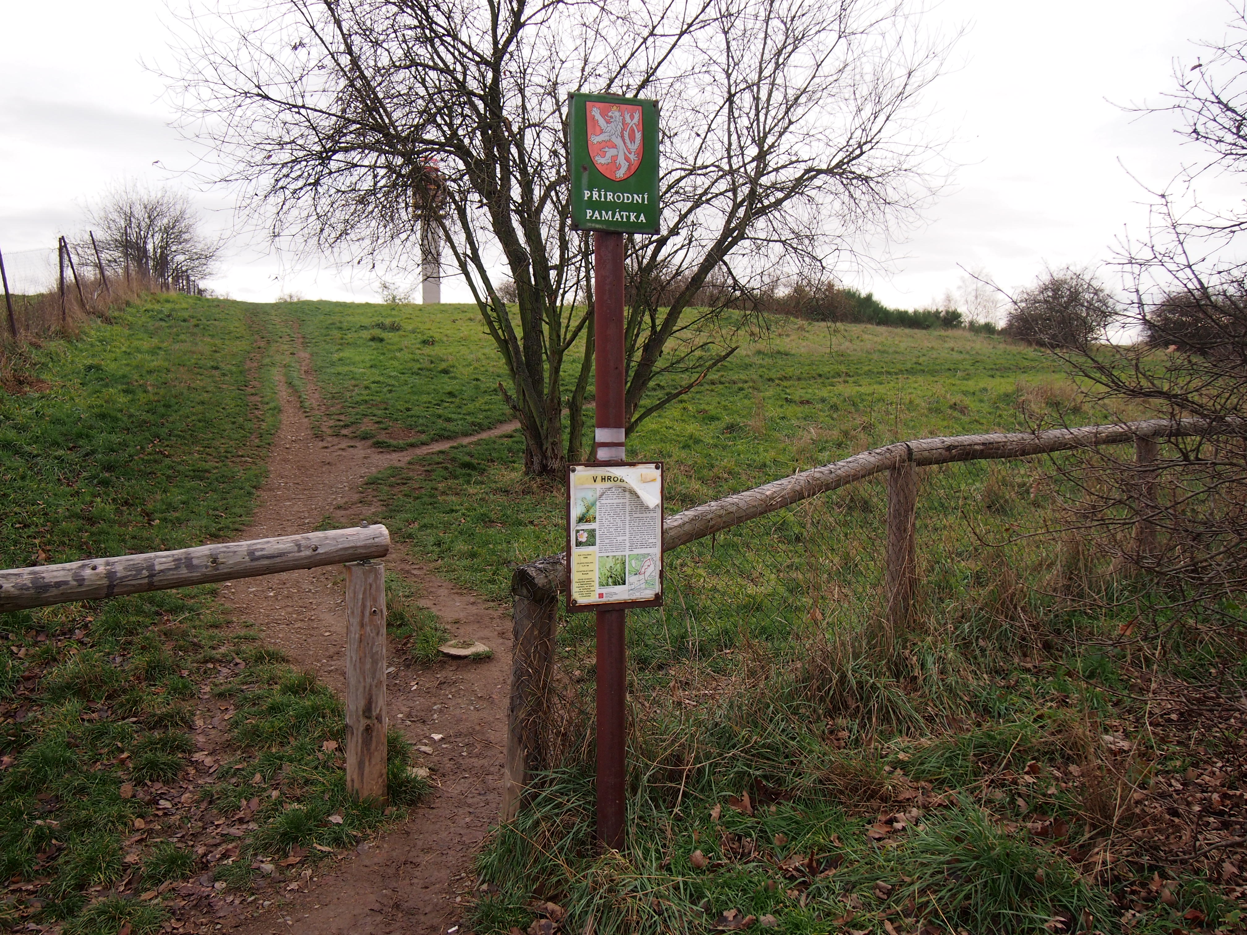 Přírodní památka V Hrobech